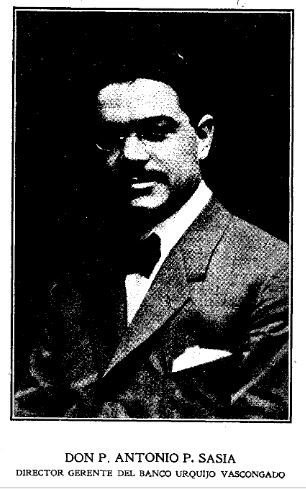 Antonio Pérez Sasía as General Manager of the Urquijo Vascongado Bank